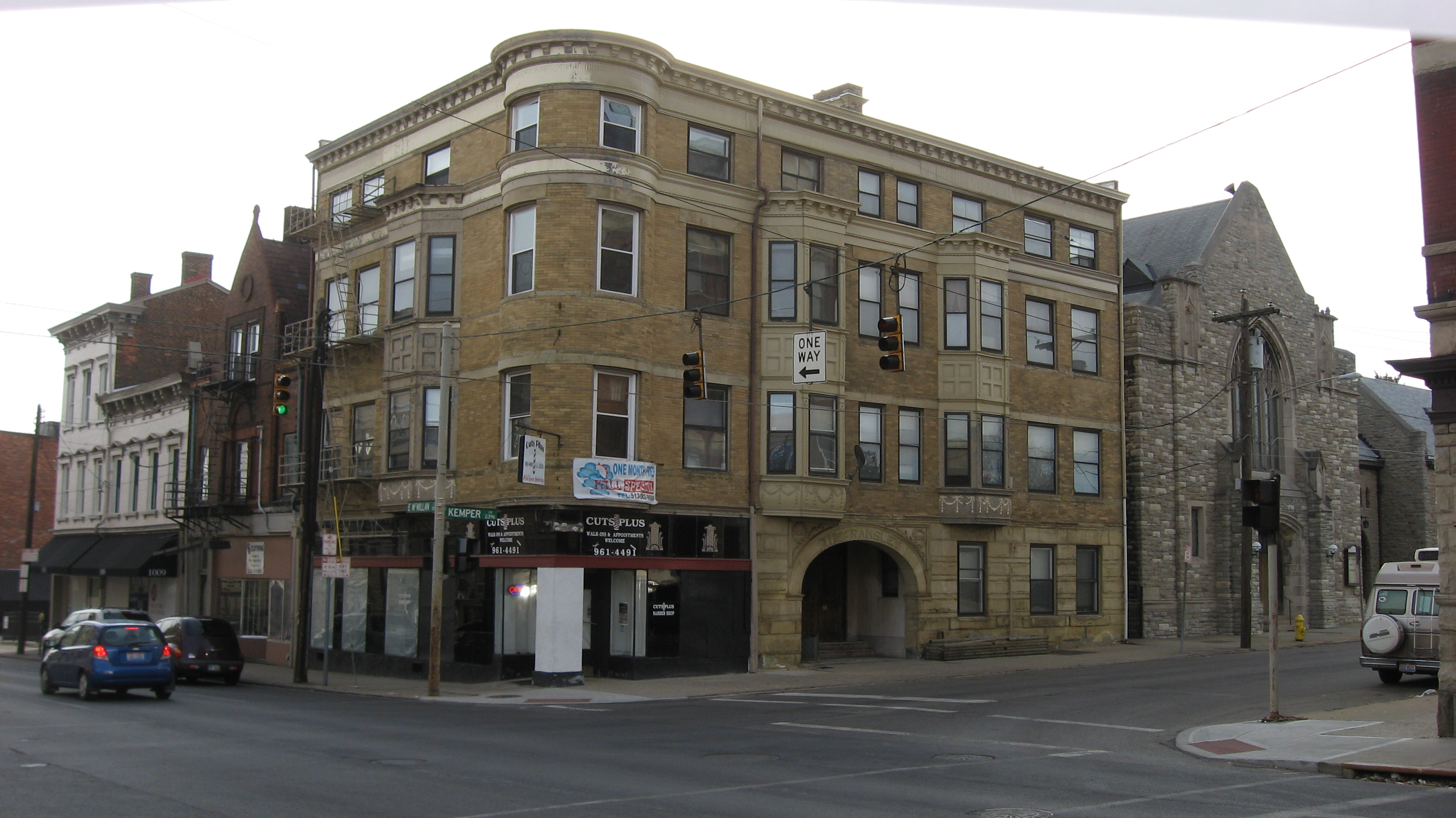 Front of the Ransley Apartment Building, located at 2390 Kemper Lane in the Walnut Hills neighborhood of Cincinnati, Ohio, United States. Built in 1895 according to a design by Samuel Hannaford, it is listed on the National Register of Historic Places. The whiteness at the very top of the image is a sheet of paper: when taking photographs, I carry a checklist with me, and a breeze this day caused the checklist to blow in front of the camera, but to a small enough extent that I failed to notice until I was processing the image days later.